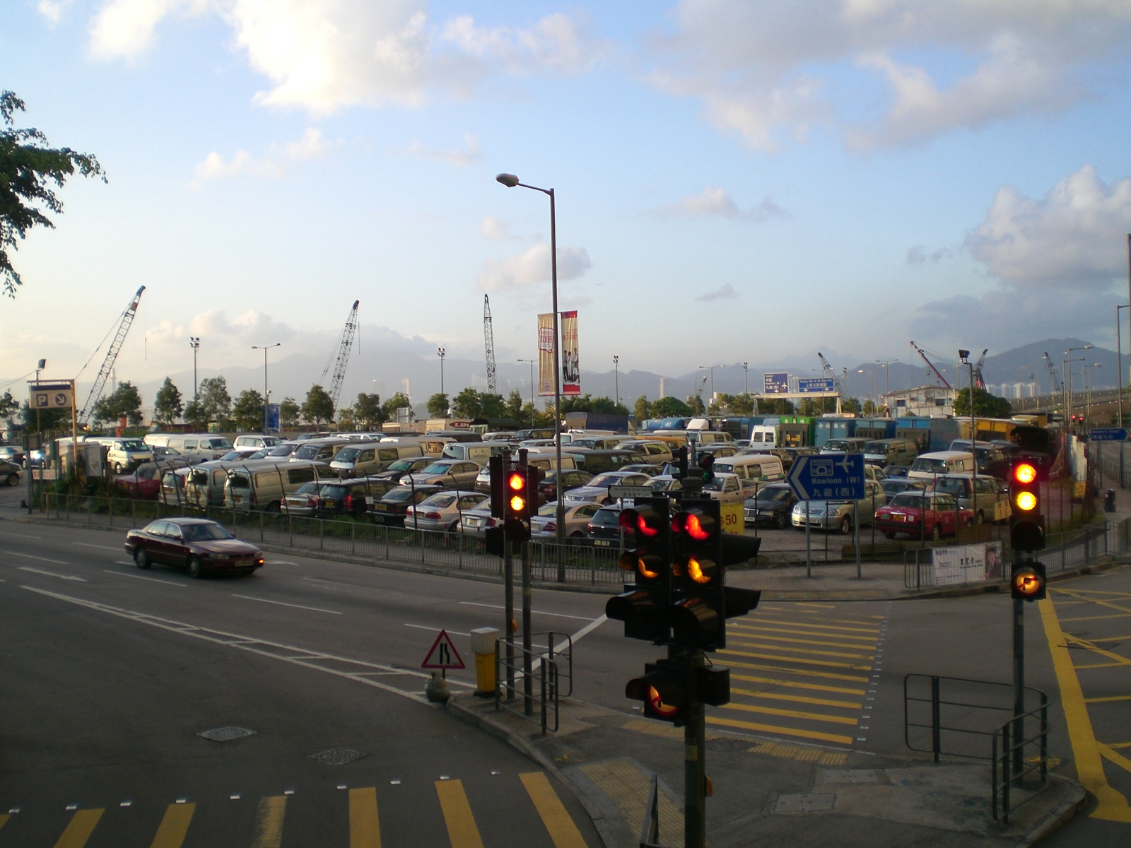 Author= SeDAplaza